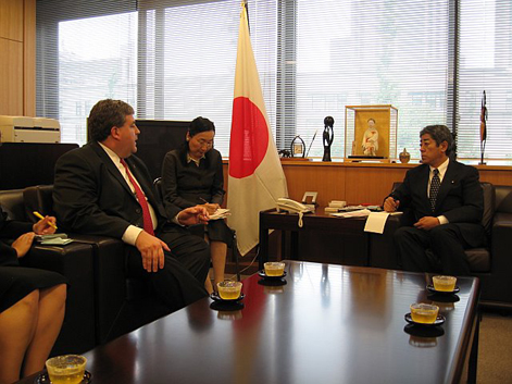 Eric Hargan, Acting Deputy Secretary of Health and Human Services, talked with Takeshi Iwaya, Senior Vice-Minister for Foreign Affairs, at the Ministry of Foreign Affairs in Chiyoda Ward, Tōkyō Metropolis, on July 11, 2007.